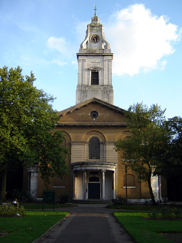 Parish church of St John-at-Hackney, London E5, seen from north-northwest